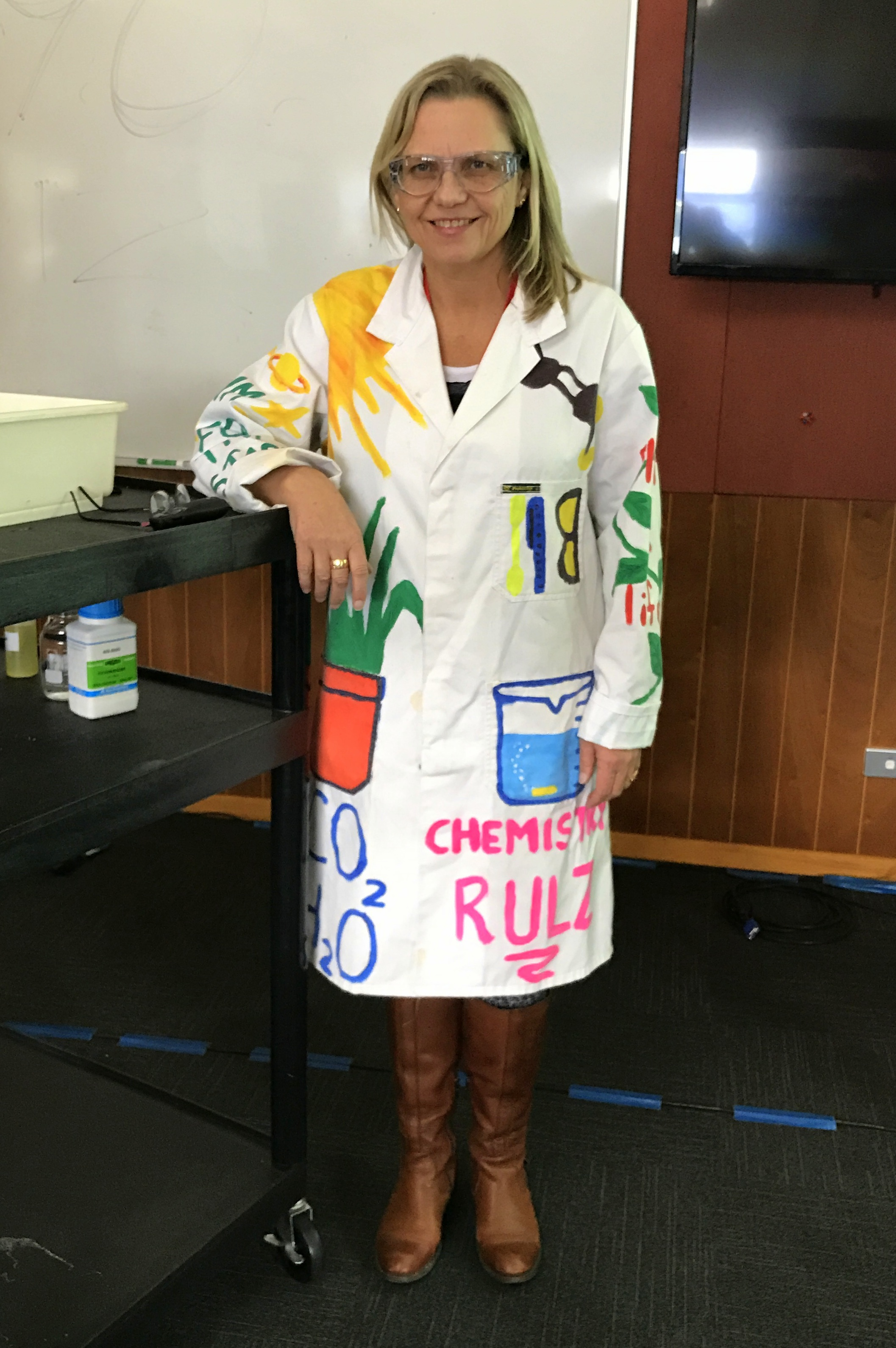 Tania Lineham Speaks at the New Zealand Skeptics Conference, Queenstown